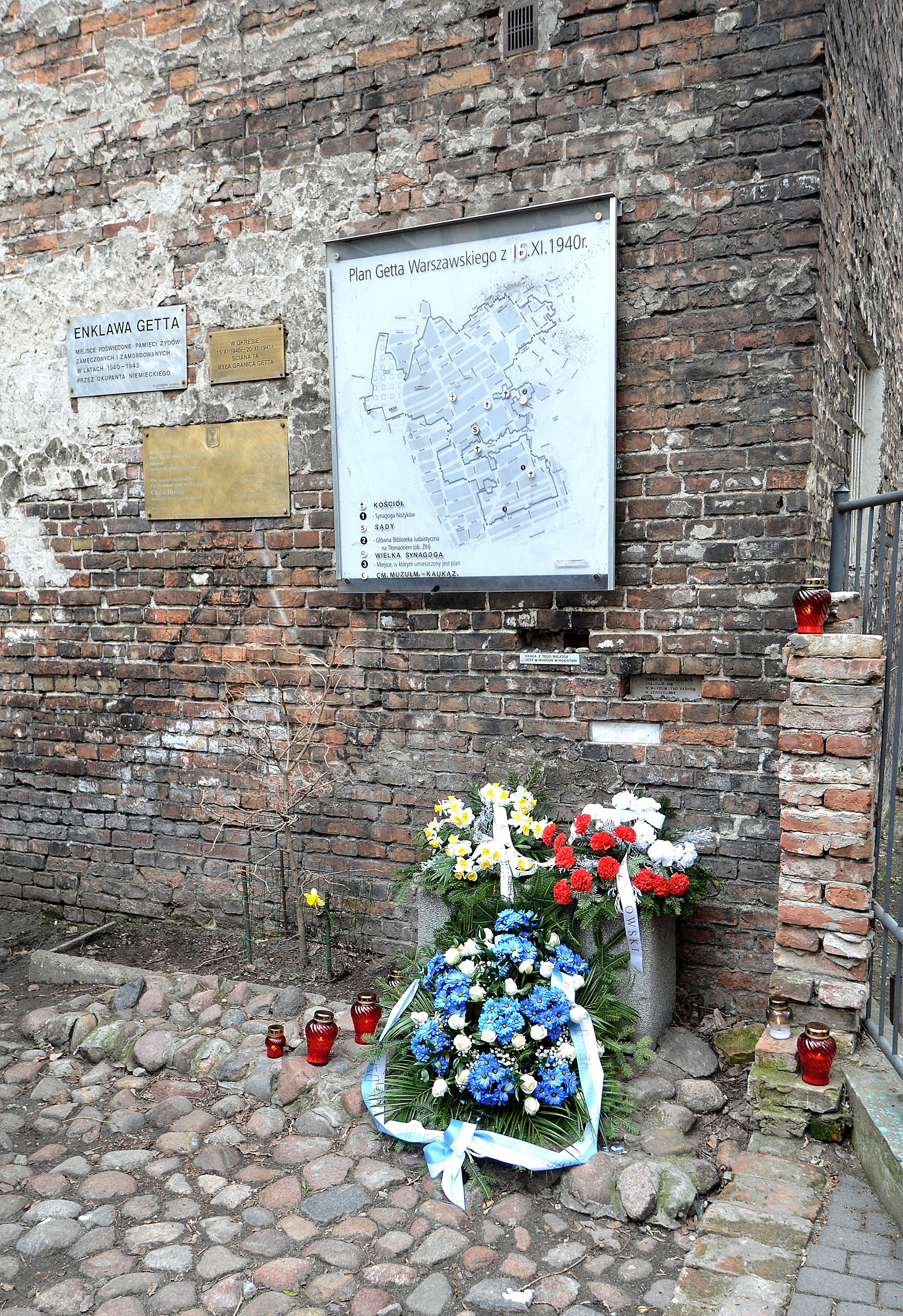 A piece of the Warsaw Ghetto wall at 62 Złota Street